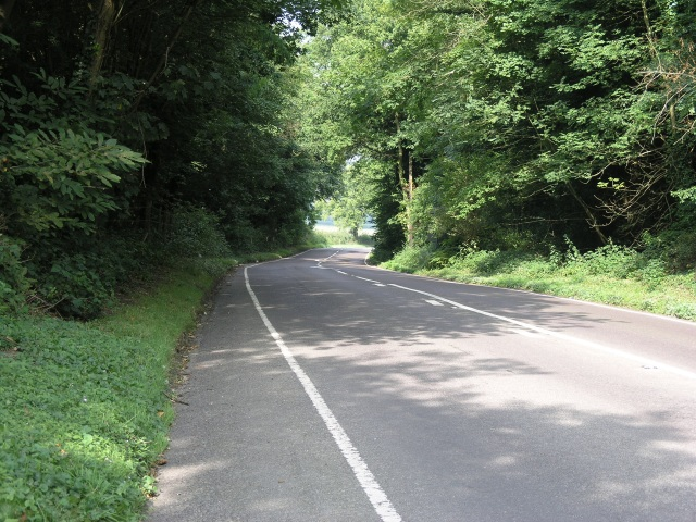 Tilburstow Hill Road, Godstone, Surrey, England.